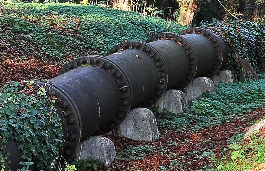 Marly Machines. Detail of piping in cast iron on the hill of Bougival.